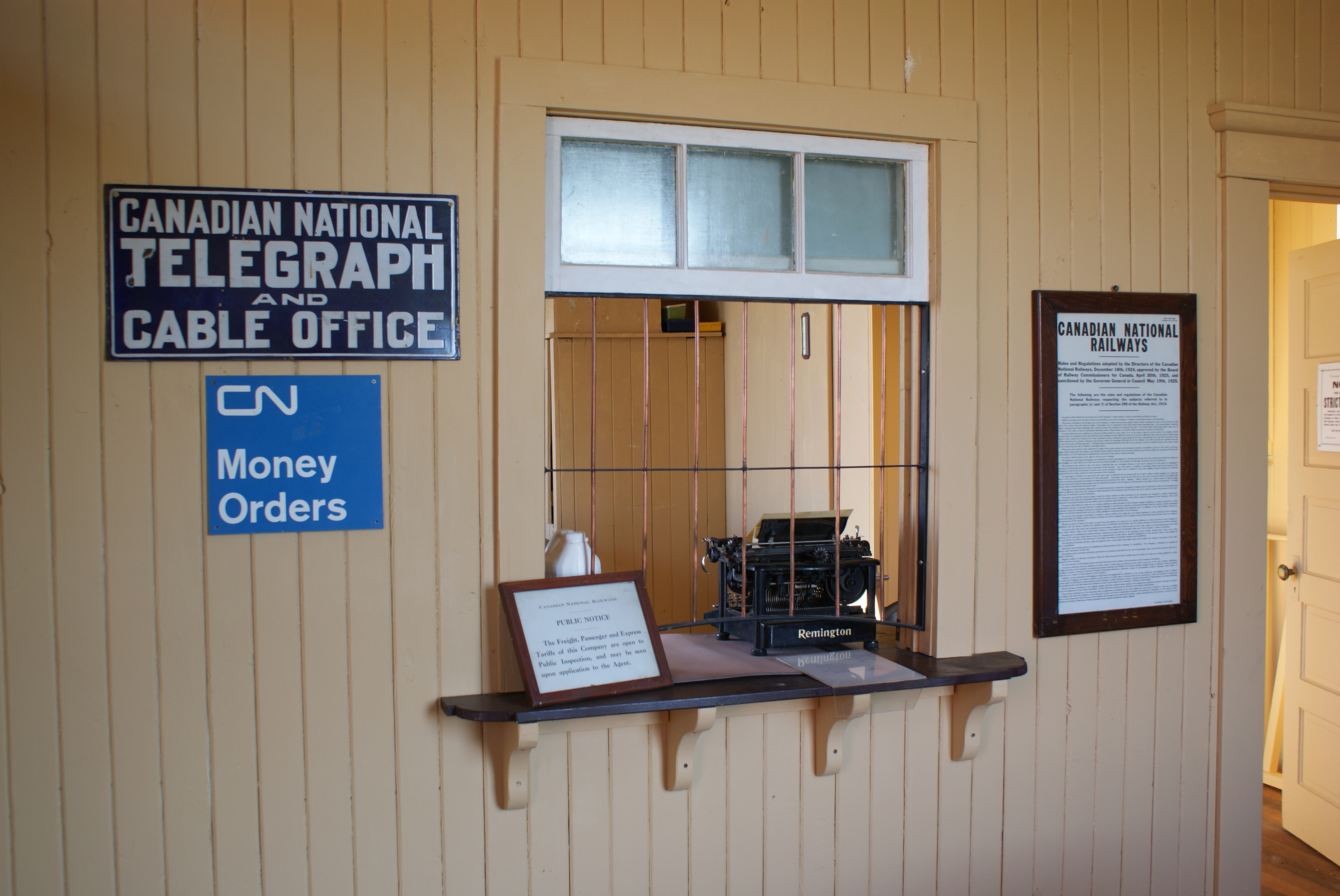 Restoring the interior of the Argo train station at the Saskatchewan Railway Museum